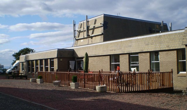 St Michael's Hospital There are 24 beds for the frail and elderly. Administration and admissions are under the auspices of the department of elderly medicine at St John's Hospital Livingstone. The Scottish Ambulance Service have an emergency response vehicle based here. There is also a day centre for elderly patients who need less intensive care. There is no Accident and Emergency provision